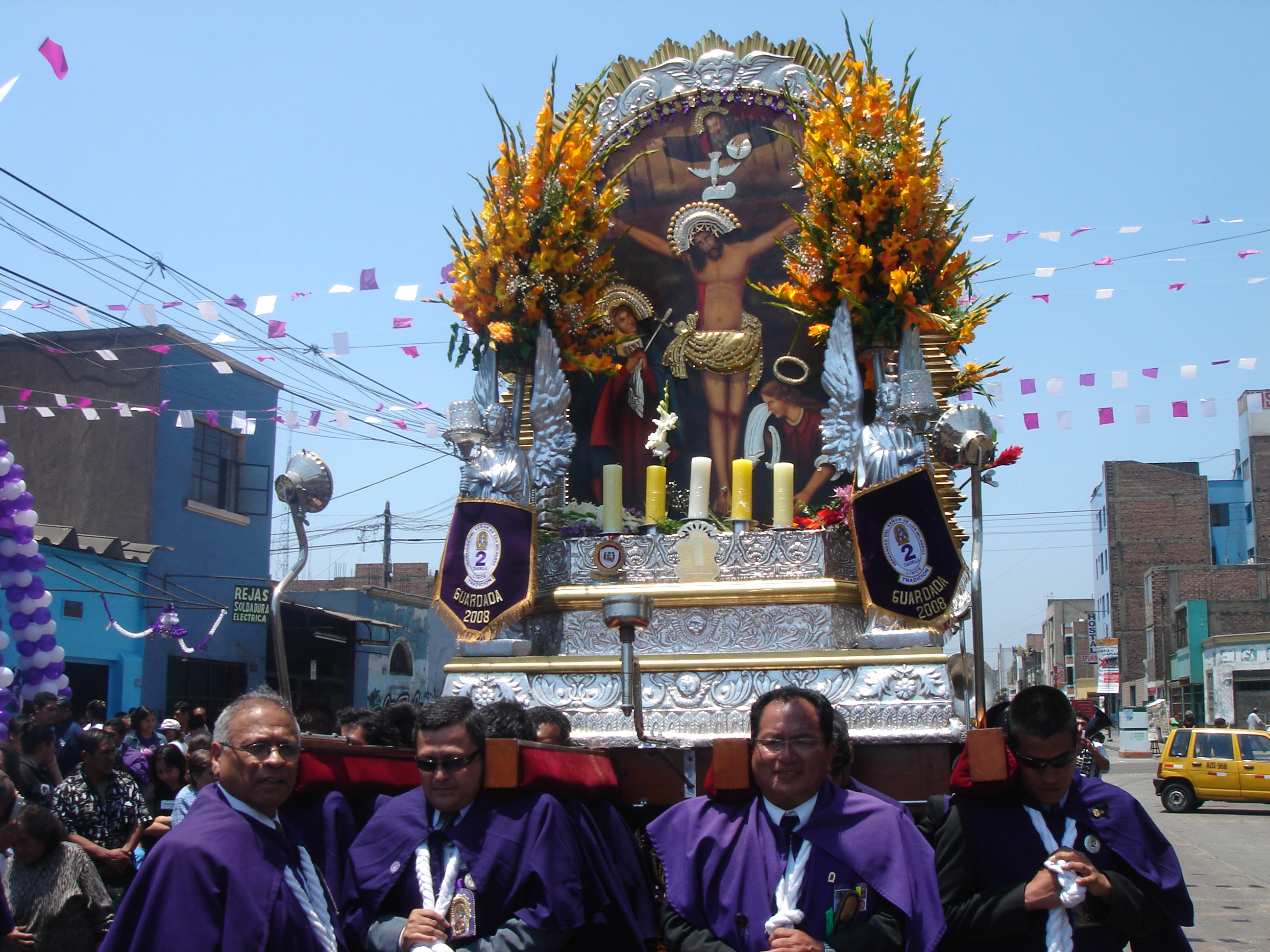 Lord of Miracles of Lince District in Lima, Peru.